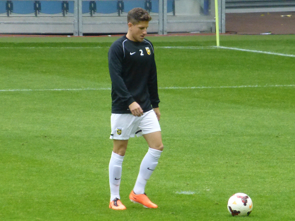 Sam Hutchinson in GelreDome during half-time of the match Vitesse vs. Feyenoord